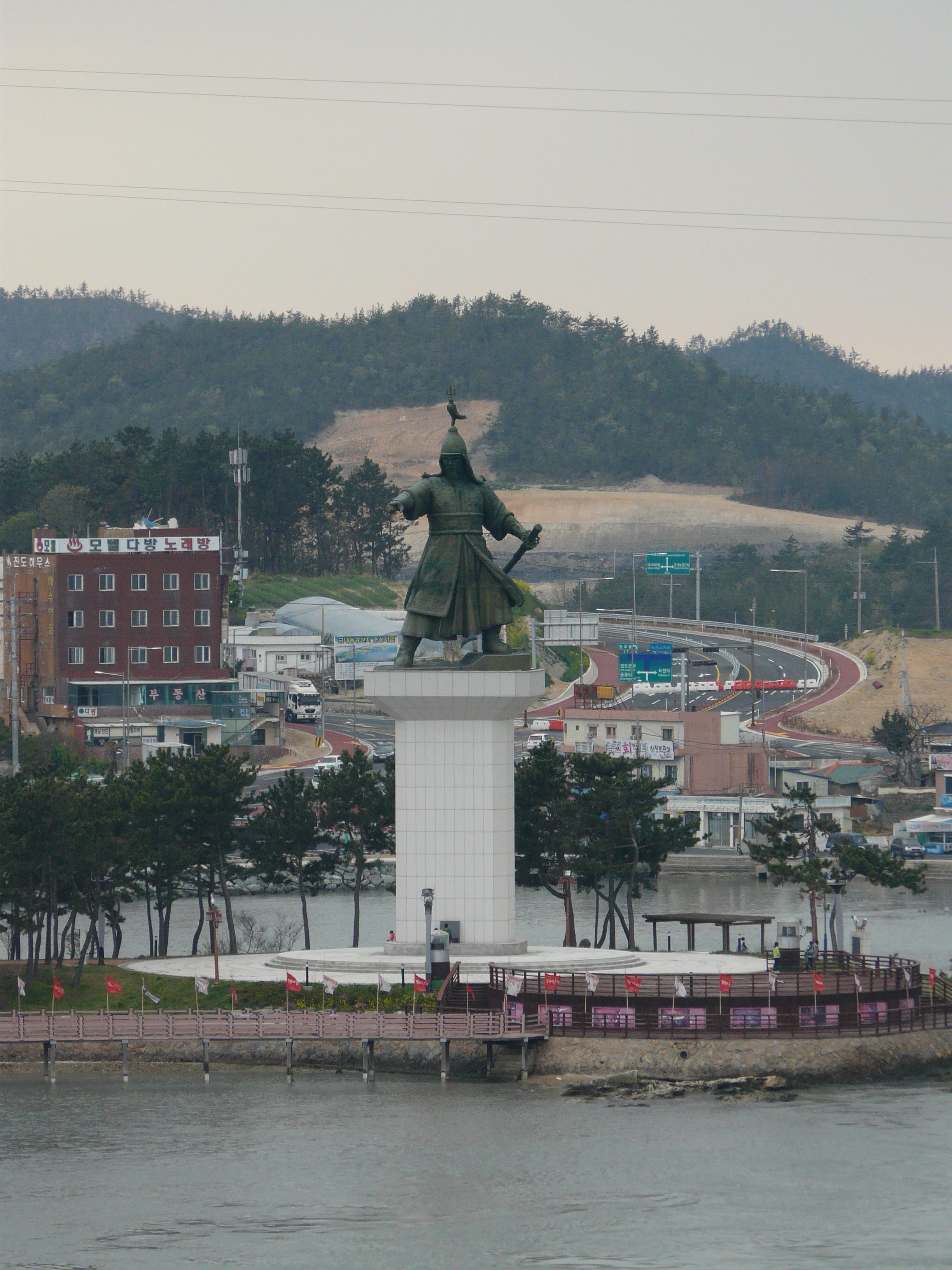 Photos from the Jindo island, Korea.